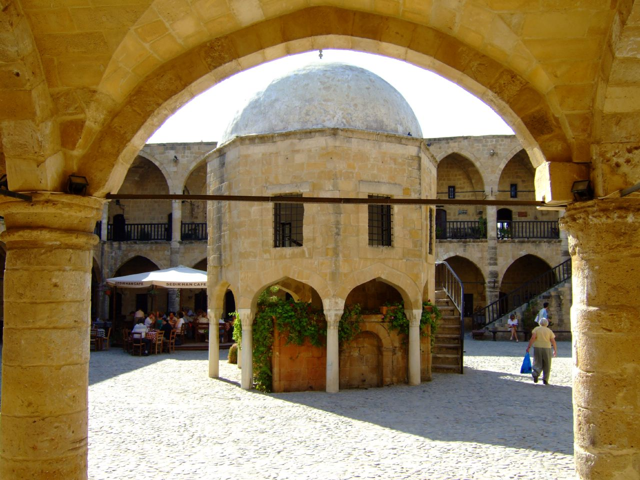 Cafe, in former mosque courtyard with howz pavilion, in Nicosia, Cipro